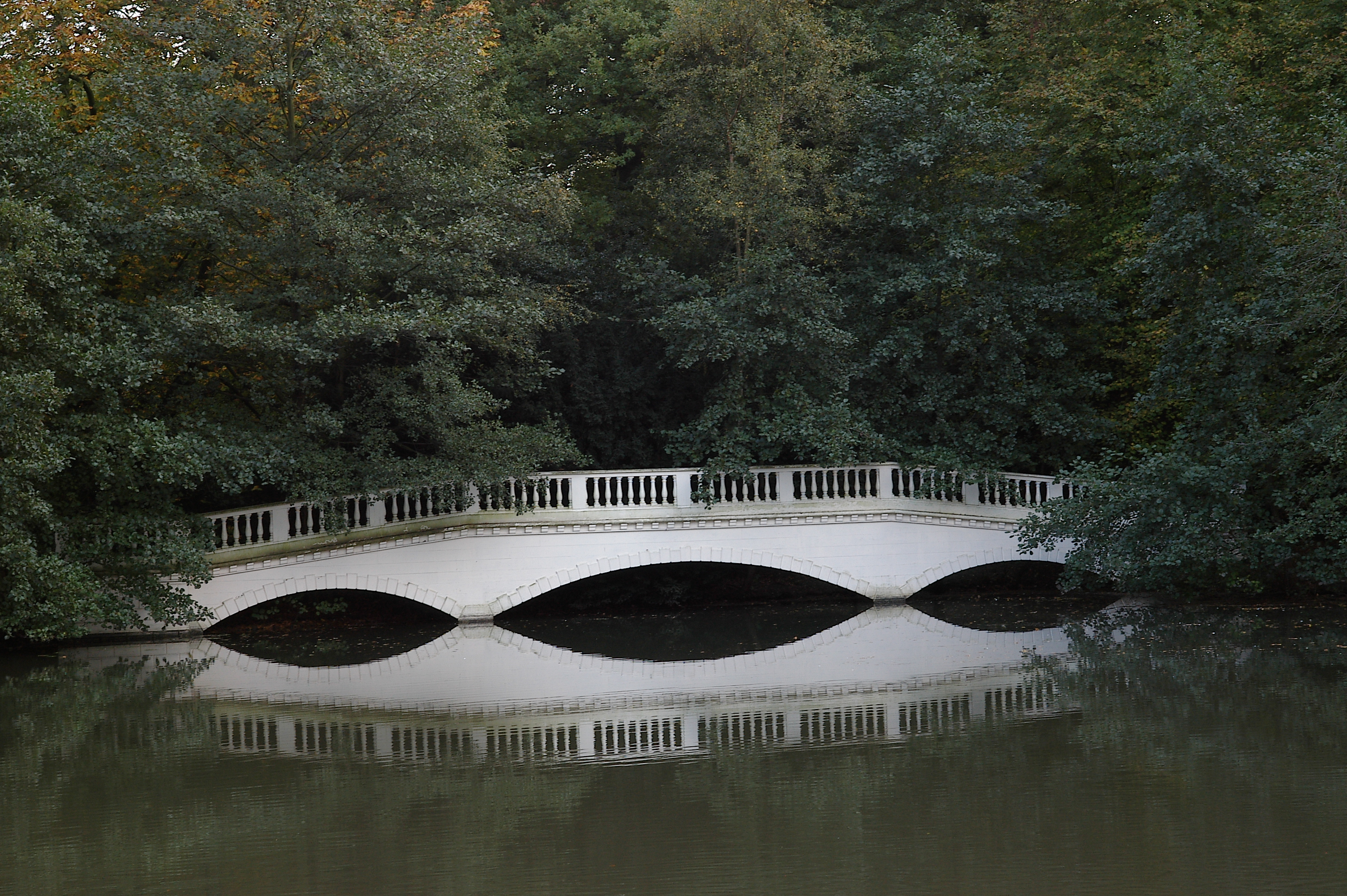 False bridge in gardens, Kenwood House, Hampstead Heath.